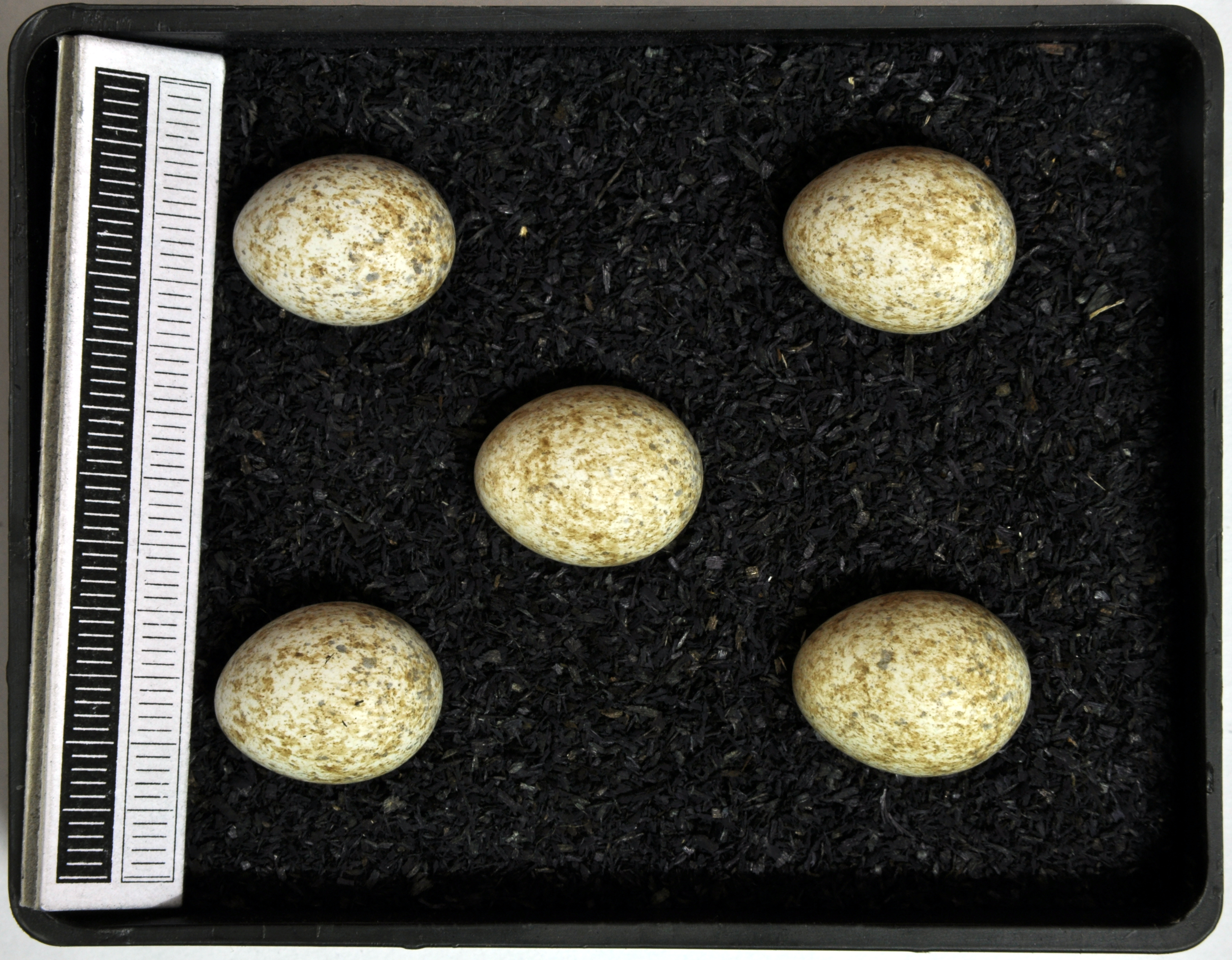 Common whitethroat Sylvia communis, egg, Coll. Museum Wiesbaden, Origin: , Lake Neusiedl, Austria, 21.05.1974, leg. W. Abelmann